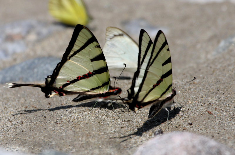 Fourbar Swordtail Graphium agetes